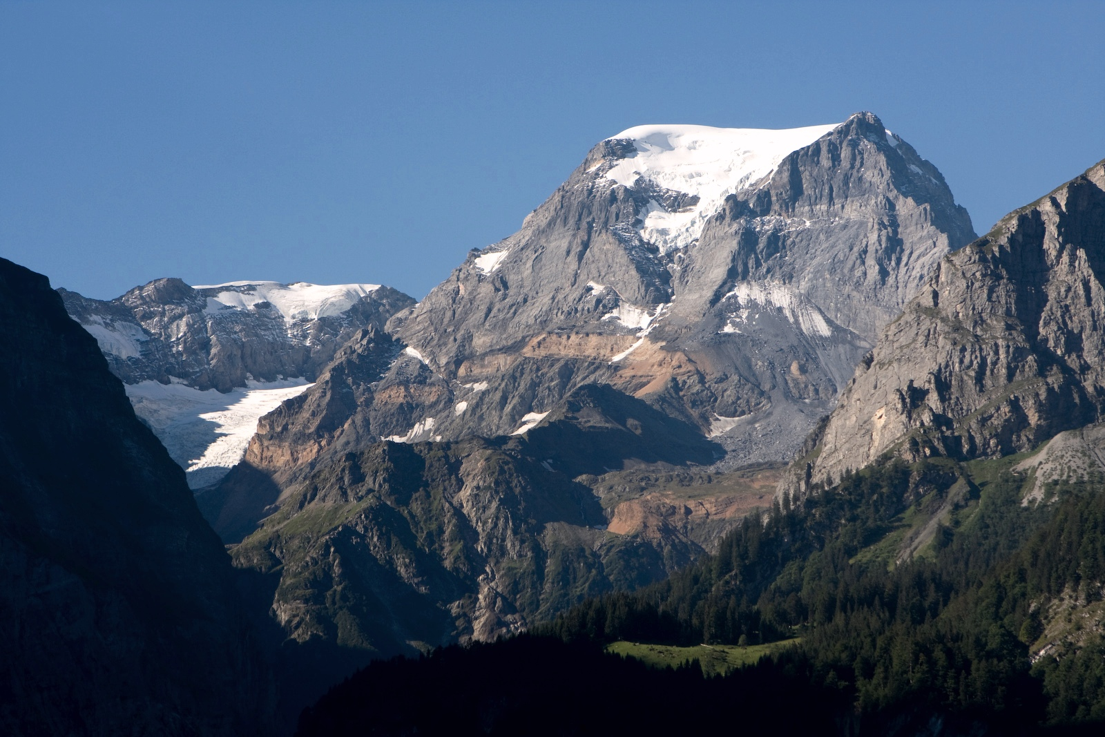 Tödi, Glarner Alpen